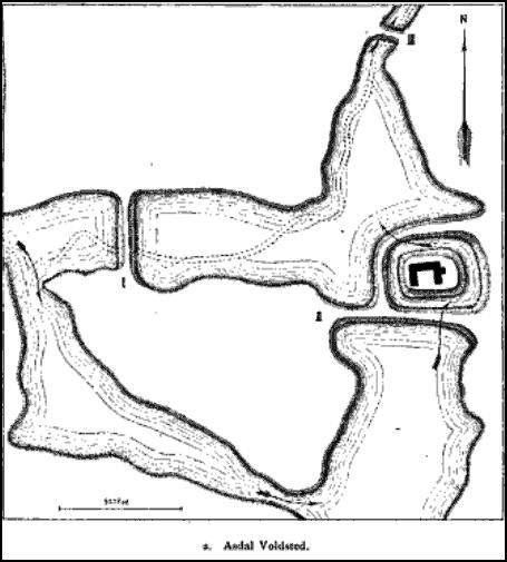 Asdal Voldsted